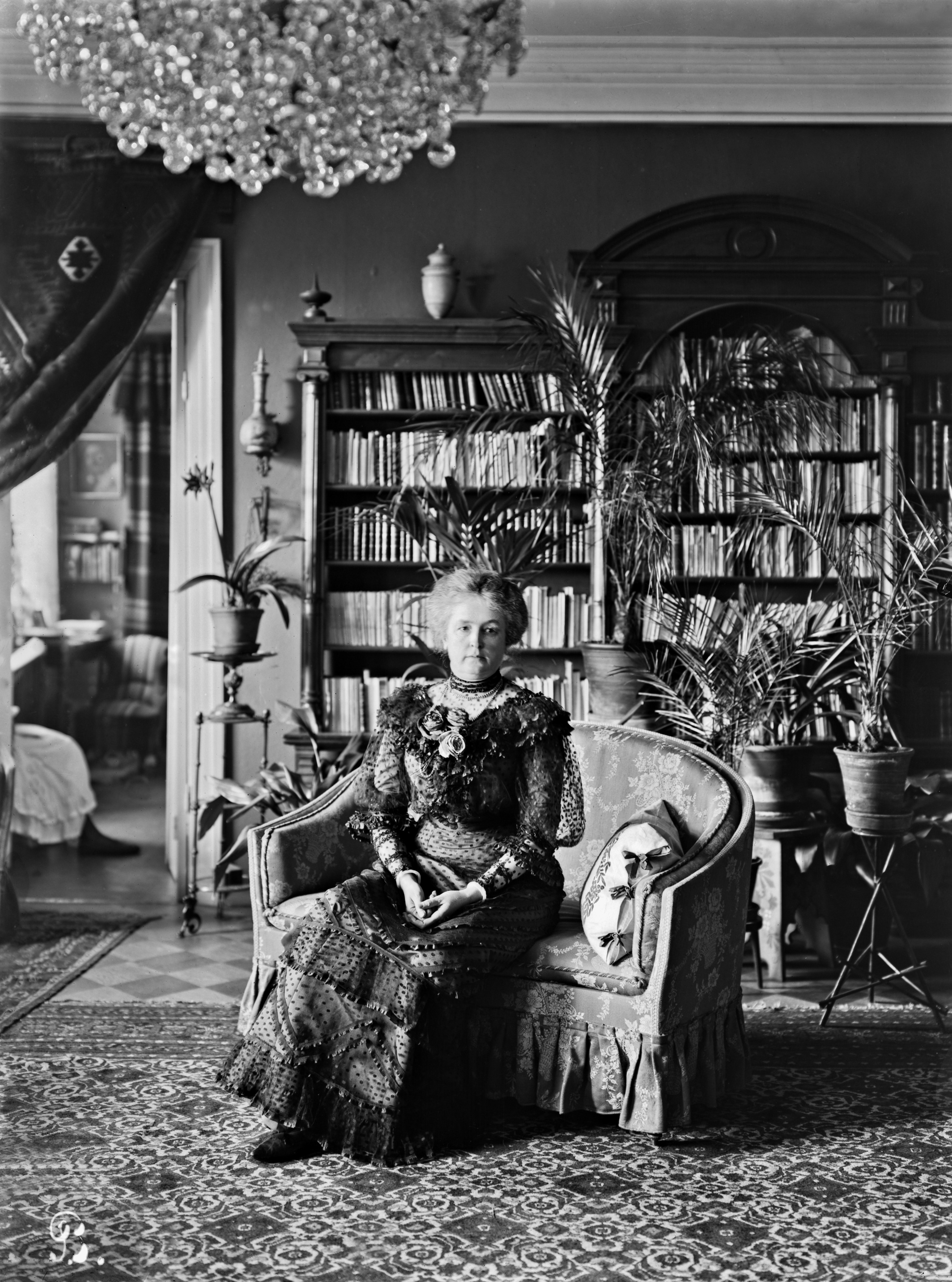 Photograph of the Finnish Baroness Anna af Schultén (1860–1928) who founded Barnavårdsföreningen i Finland (Child Welfare Society of Finland).